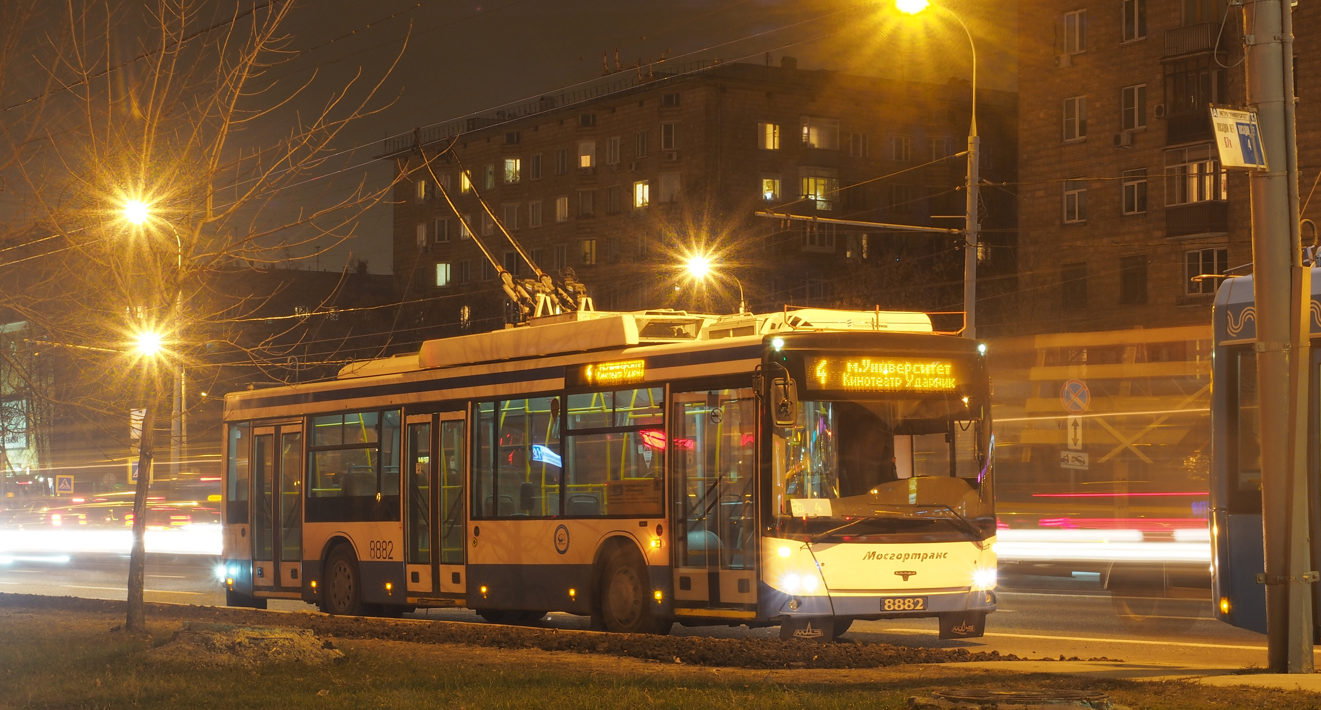 SVARZ-MAZ-6275 trolleybus in Moscow